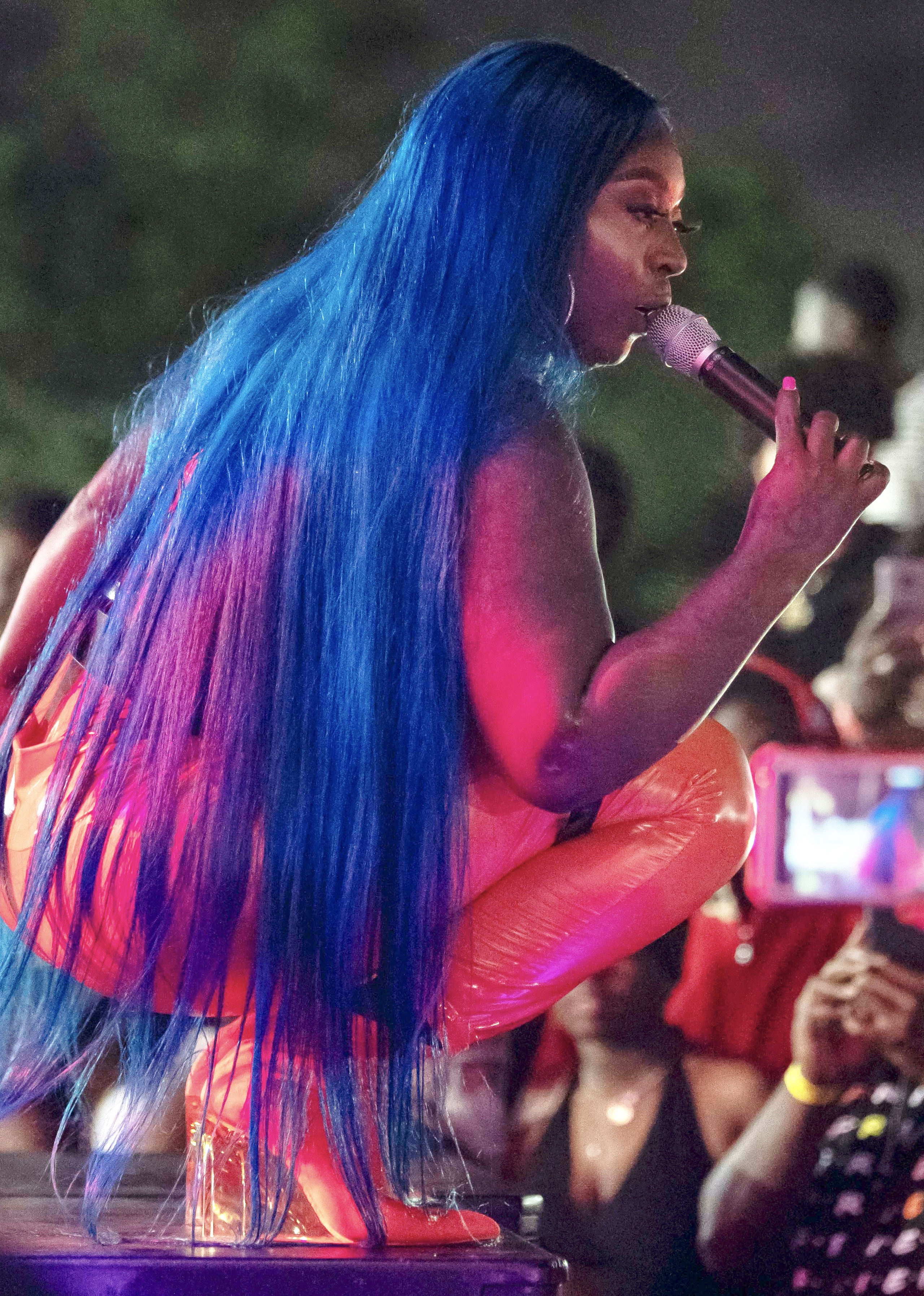 Jamaican musician Spice performing at Florida International University.